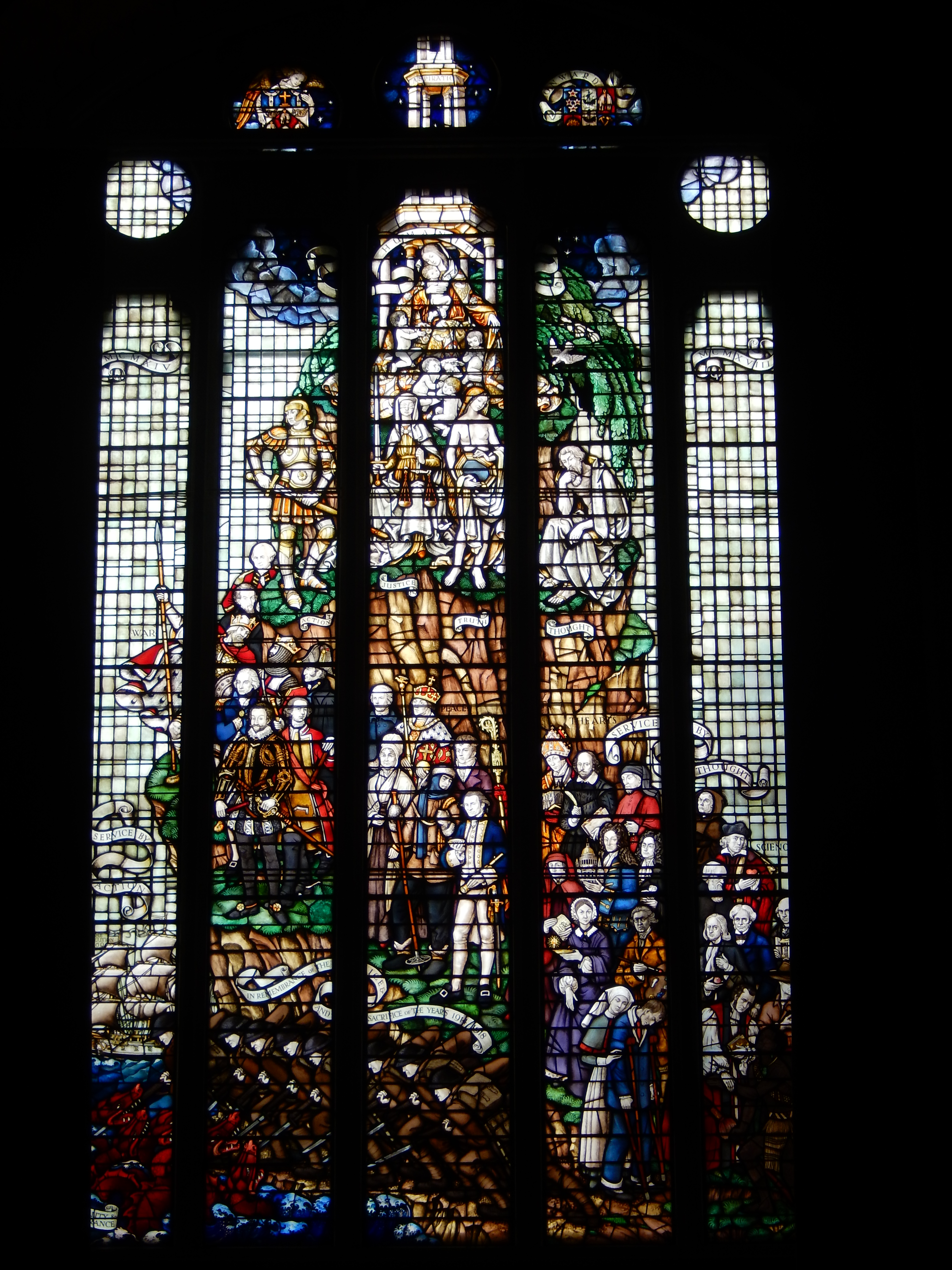 Christchurch Arts Centre Great Hall stained glass window. New Zealand Historic Places Trust Register number: 7301.